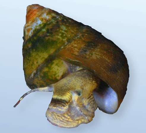 A live Leptoxis compacta from the Cahaba River, Shelby County, Alabama.